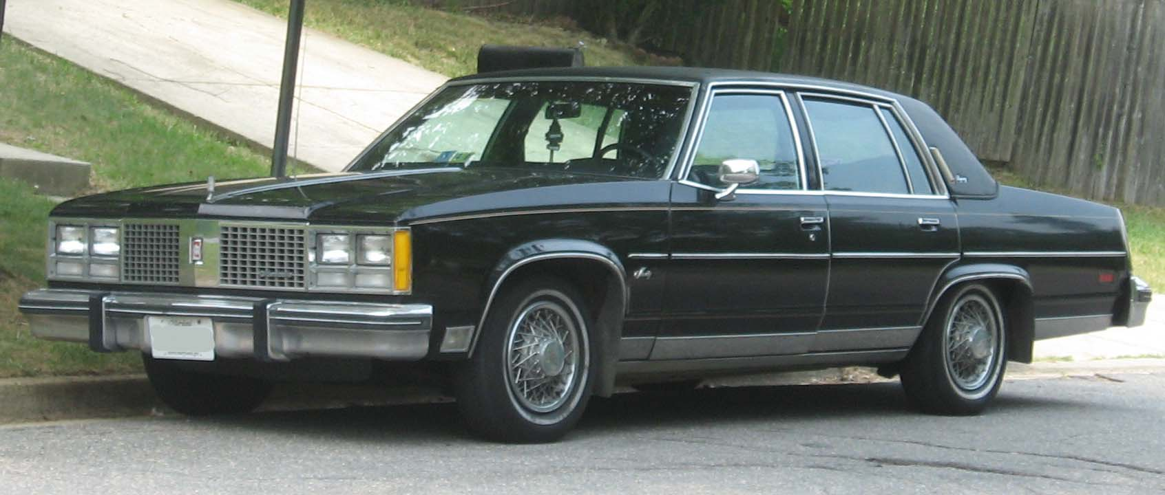 1978 Oldsmobile 98 Regency photographed in USA.